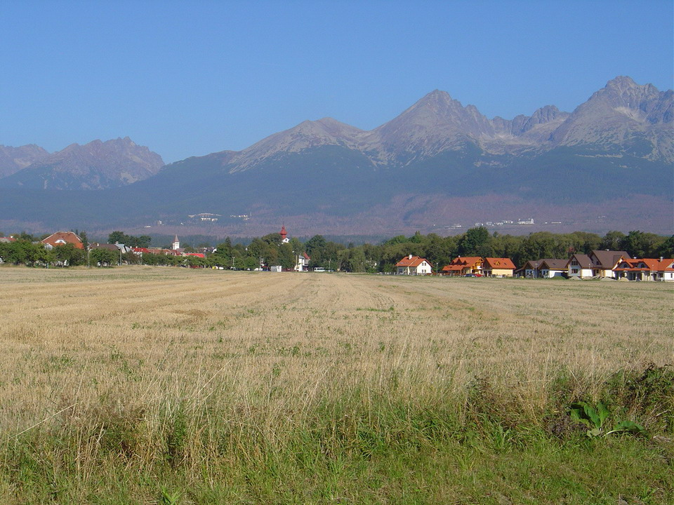 Batizovce under the High Tatras